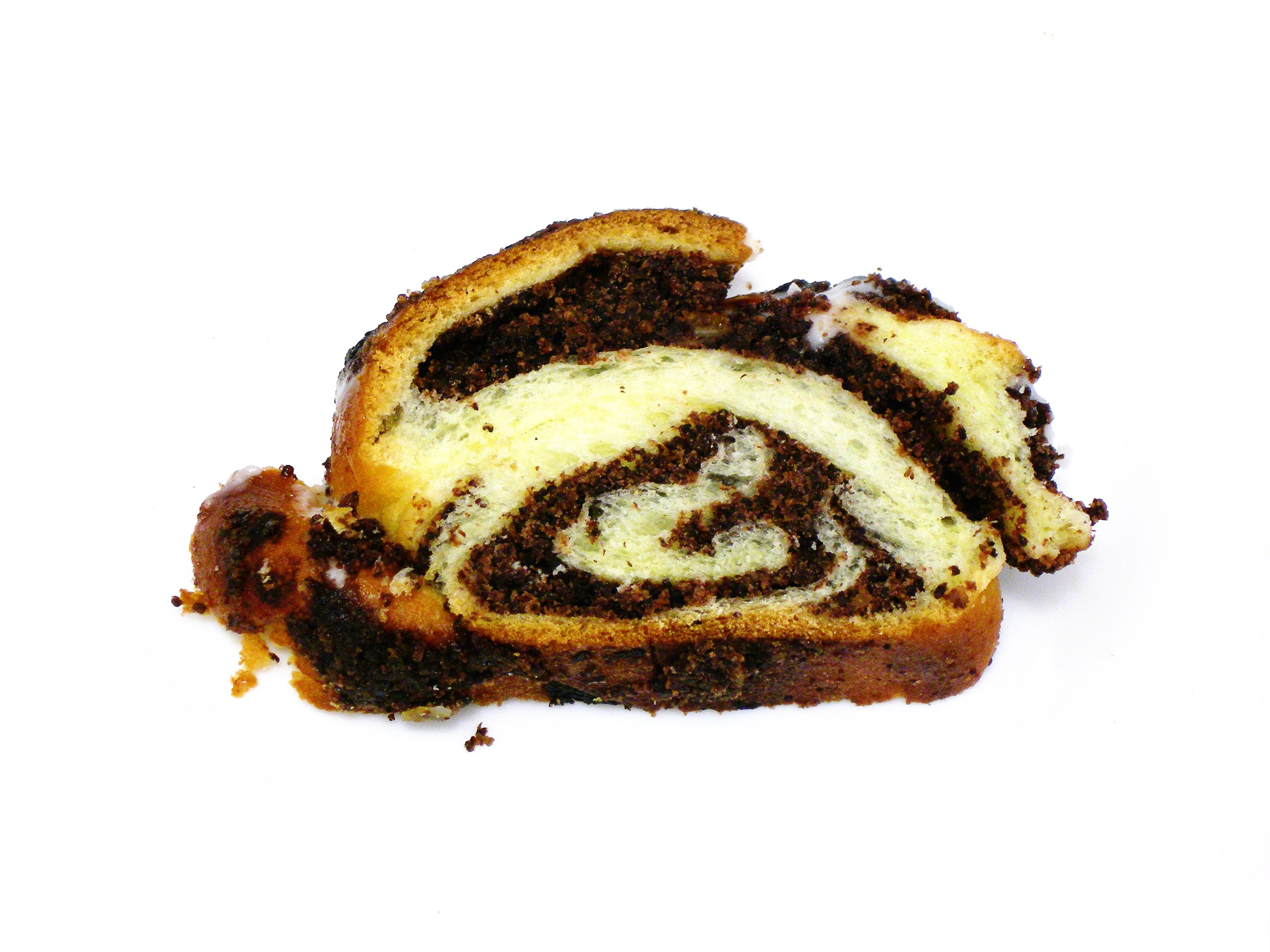 A piece of "Makowiec (ciasto)" polish cake, taken on 12th February, 2006. Photo taken by myself with a Nikon Coolpix 7600, 23.4mm f/4.9 0.250sec ISO 180.